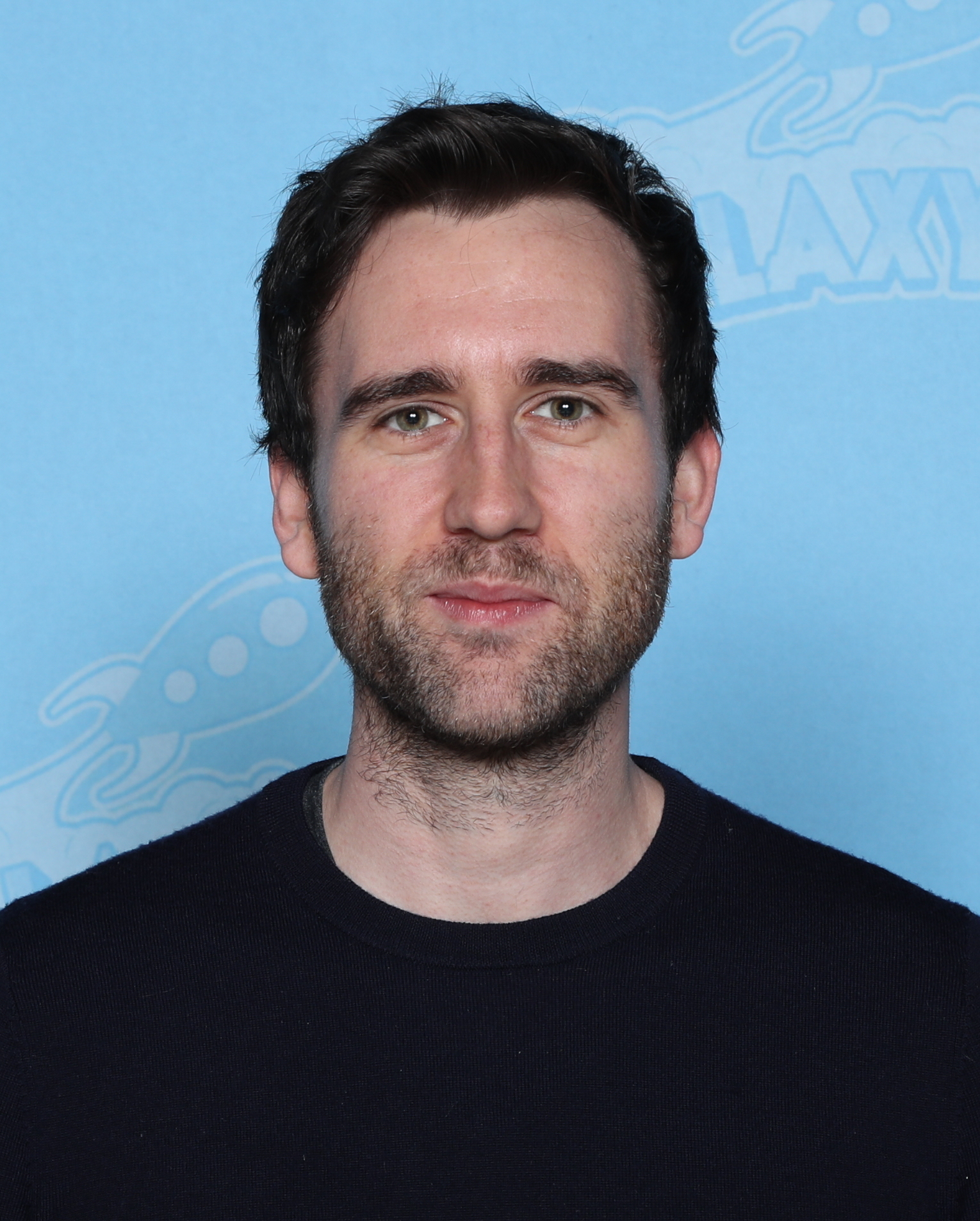 Matthew Lewis at GalaxyCon Richmond in 2020